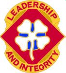 Fourth Army Distinctive Unit Insignia